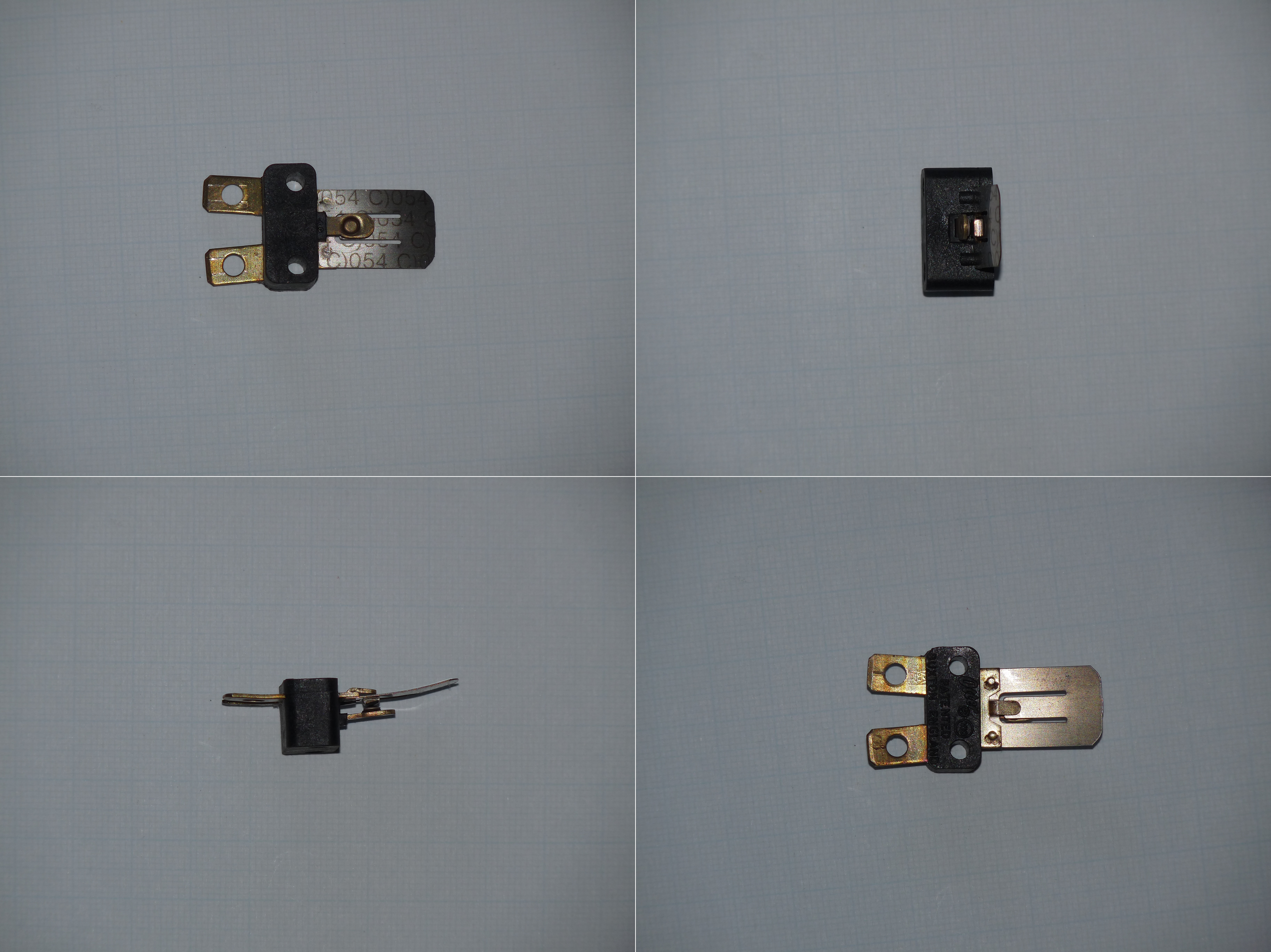 Bimetallic strip from electric stove